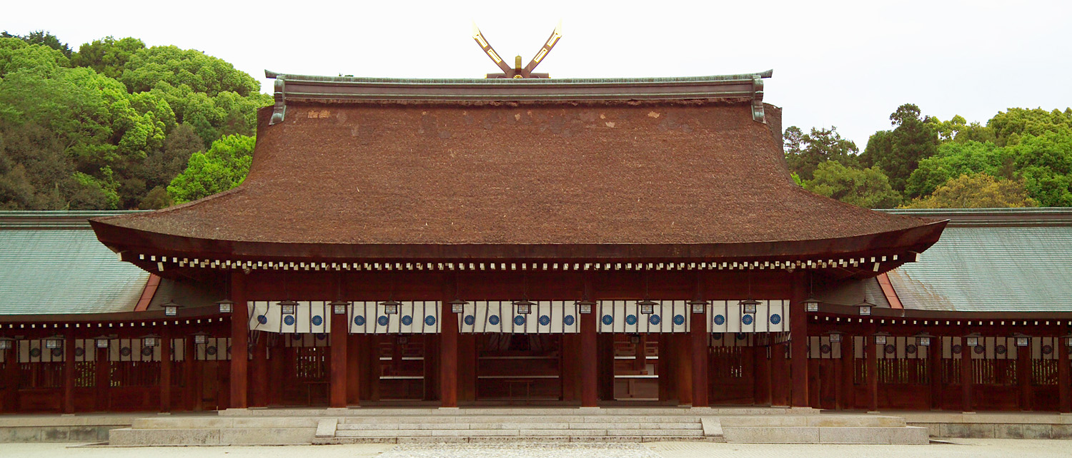 This photo shows the inner prayer hall at the Kashihara Shrine in the city of Kashihara, Nara, Japan